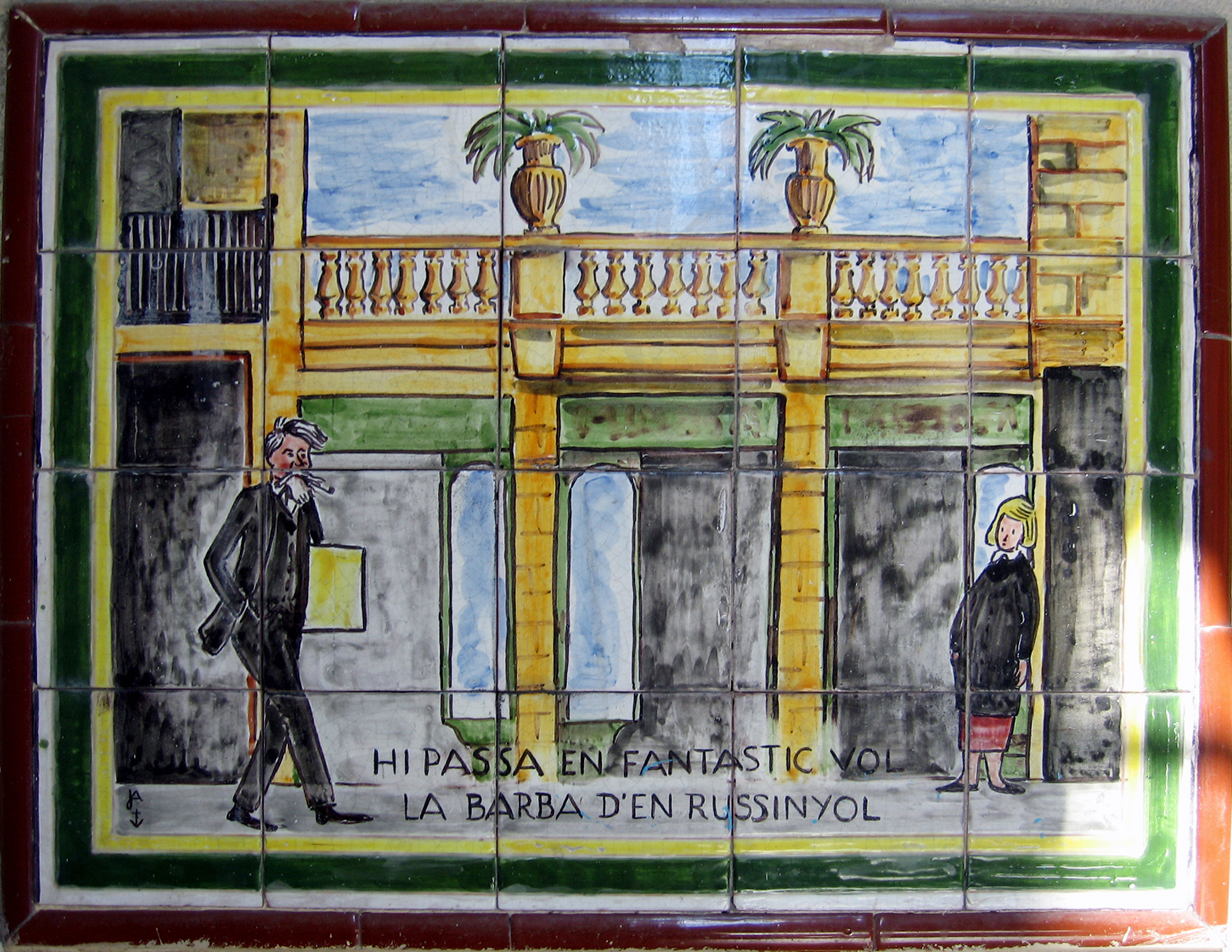 Wall tiles with pictures of “Auca del Carrer de Petritxol” in Barcelona (Catalonia). Visible at the street facade.